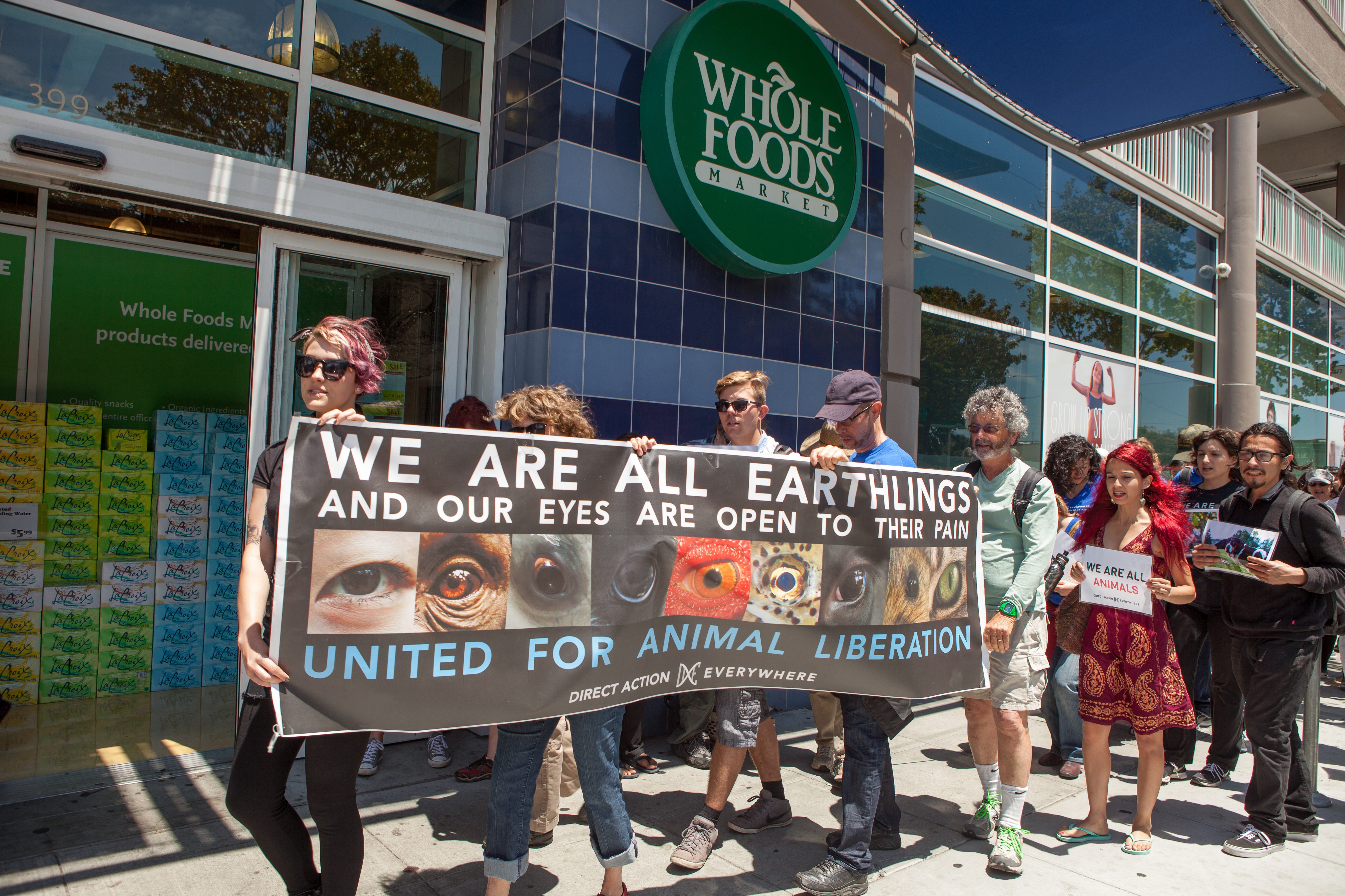 Direct Action Everywhere activists march outside a Whole Foods Market in San Francisco, carrying a colorful banner and signs.